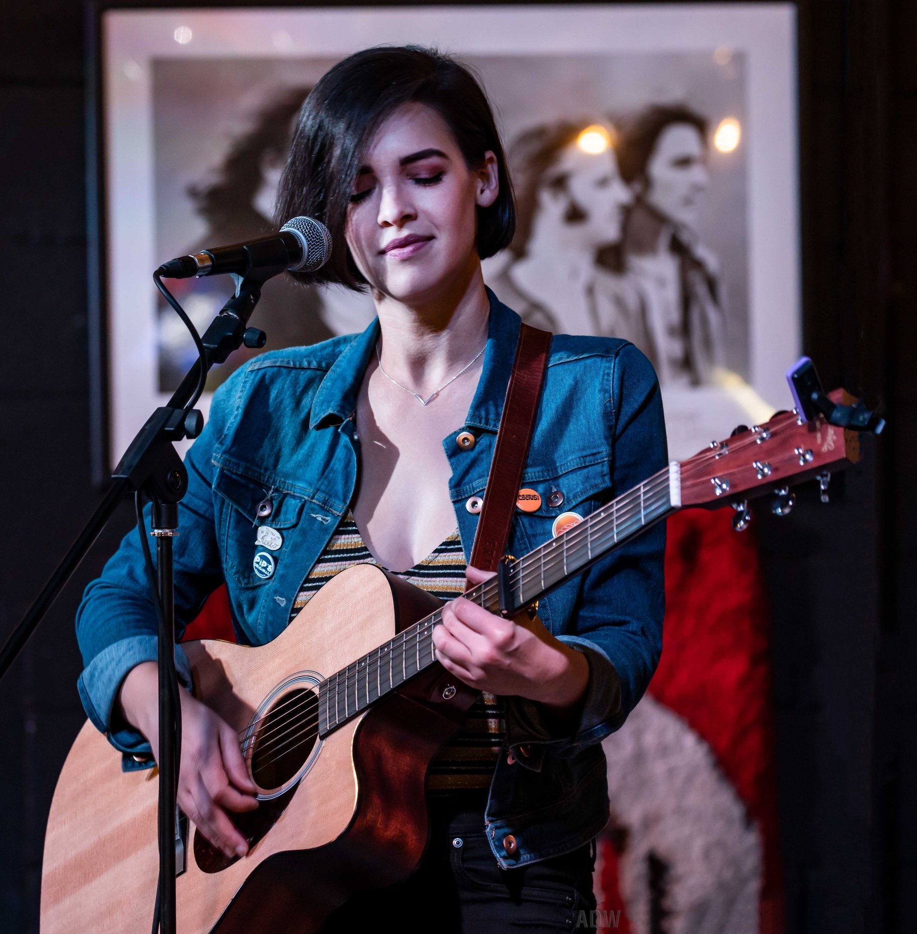 Photo by Aaron Winters of Erin Bowman performing at Record Archive, Rochester, NY 9.29.19